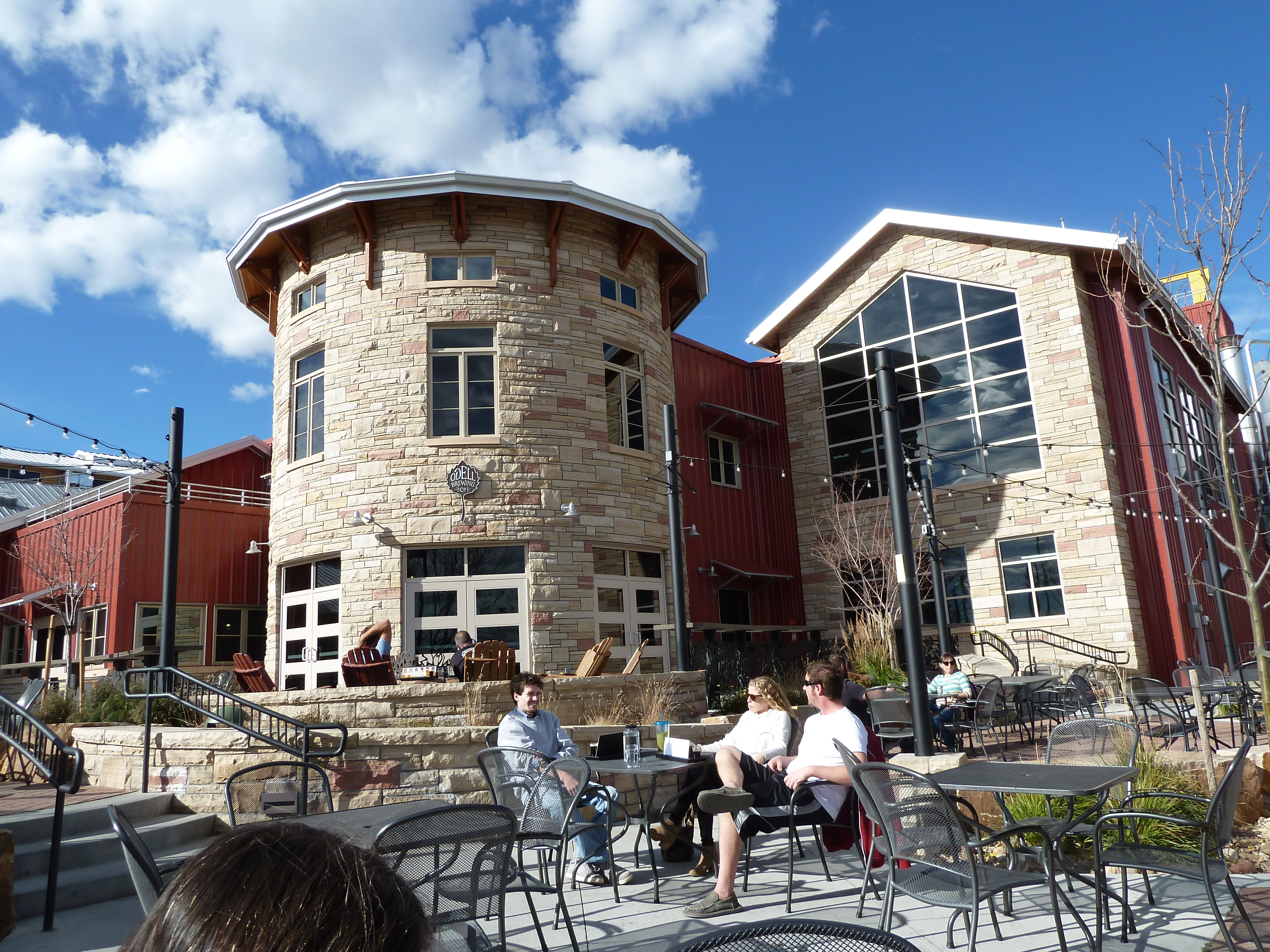 O'Dell Brewing Company, Fort Collins, CO, USA